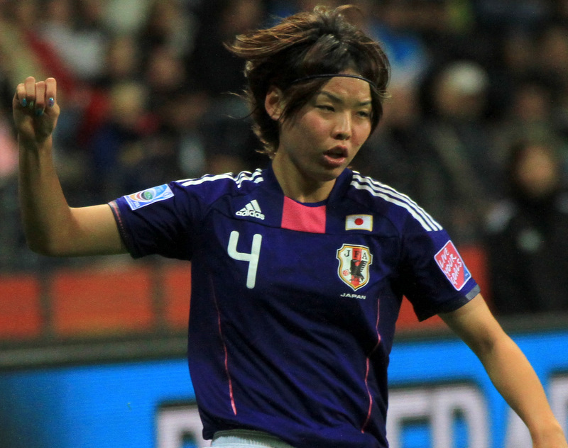 Saki Kumagai playing for Japan against Sweden in the 2011 FIFA Women's World Cup semi finals